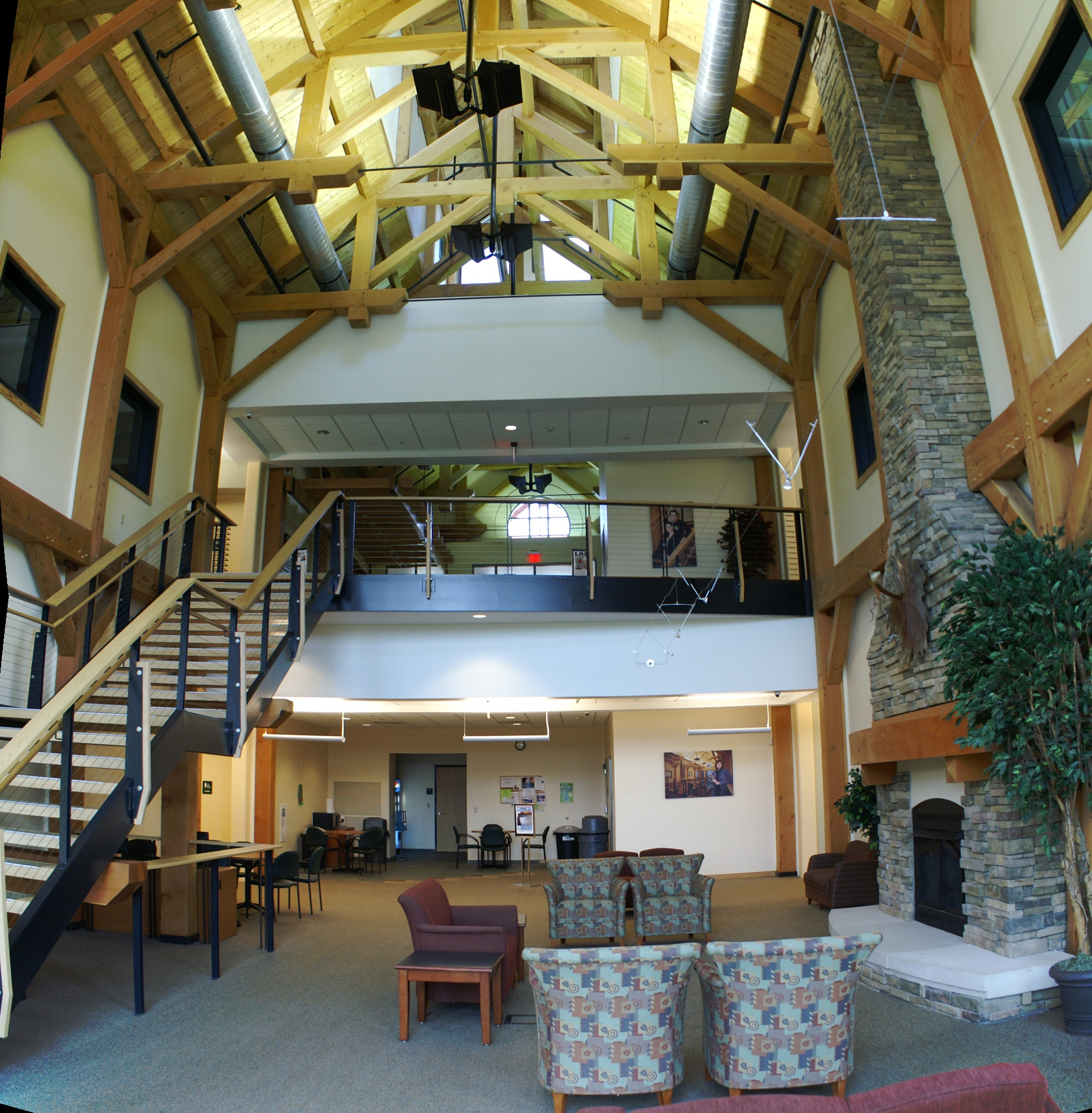 Southwestern Community College, Franklin, NC. I used a vertical panorama to take in a bit more of this tall lobby.